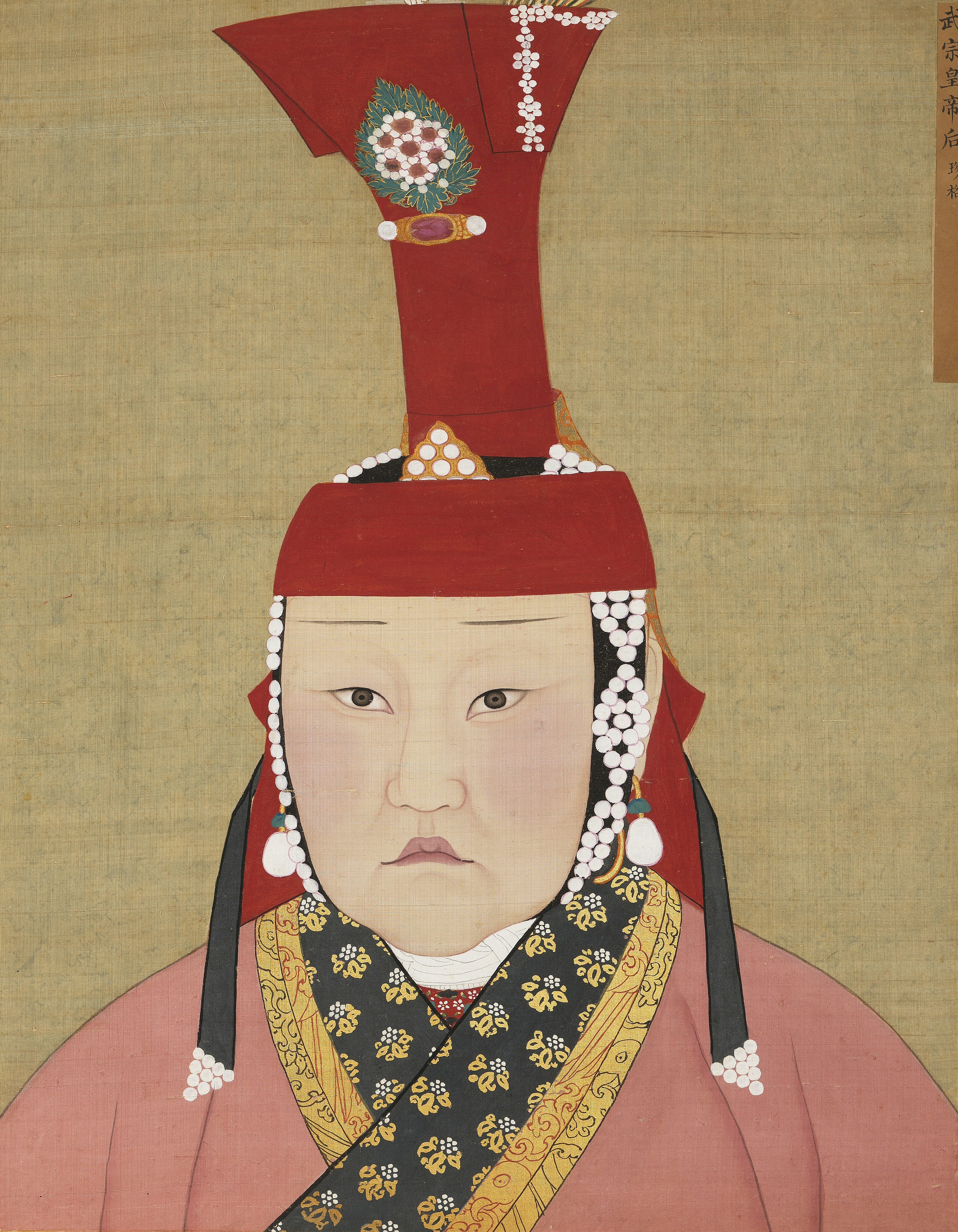 Zhenge, wife of Qaishan (a.k.a. Wuzong). Paint and ink on silk. Portrait cropped out of a page from an album depicting several consorts of Yuan emperors (Yuandai dihou banshenxiang), now located in the National Palace Museum in Taipei (inv. nr. zhonghua 000325). Original size is 48 cm wide and 61.5 cm high. For the full page, see Image:YuanEmpressAlbumTwoWivesOfQaishan.jpg. Note: The description in the source (Dschingis Khan und seine Erben) at p. 303 seems to confuse Image:YuanEmpressAlbumJiyatuAndAWifeOfAyurbarvada.jpg and Image:YuanEmpressAlbumTwoWivesOfQaishan.jpg. I have tried to follow the Chinese captions on the respective portraits, not the description in Dschingis Khan und seine Erben. Some rows or columns of pixels near the margins of the pic may have been manipulated by me (Yaan) for optics. For an unaltered (except cropping) version, see the image at Image:YuanEmpressAlbumTwoWivesOfQaishan.jpg.